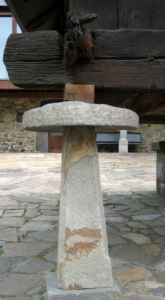 Detail view of an hórreo, typical storage house in the Villablino-Leon region of Spain. Supposedly the round stone impedes rats from coming up the house through the corner posts.